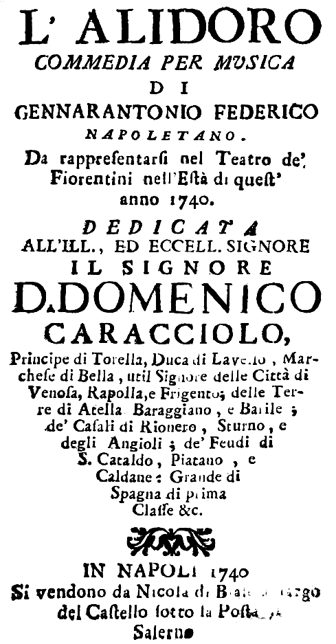 Leo - Alidoro - titlepage of the libretto - Naples 1740